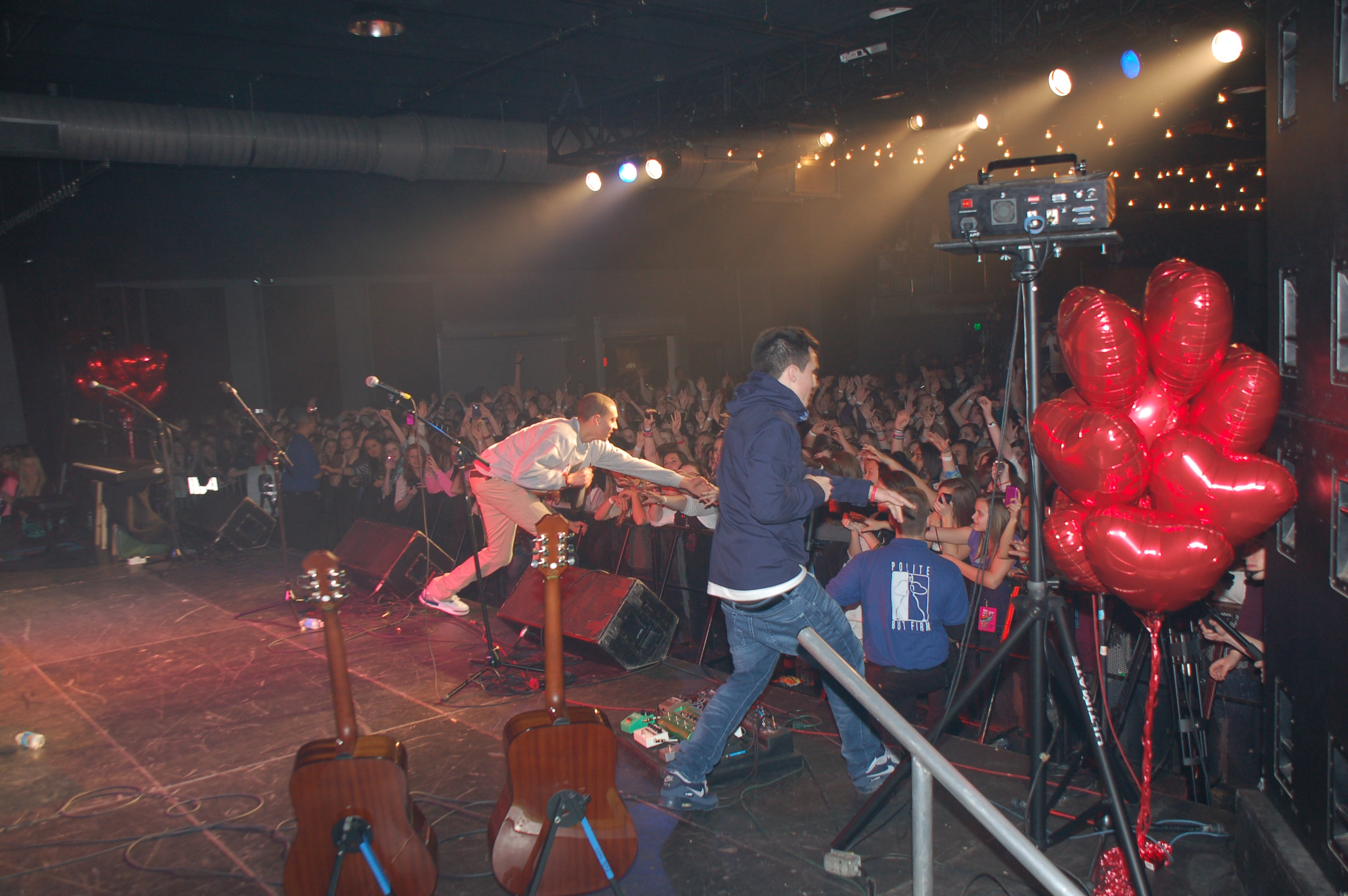 Kailin and Myles interact with crowd